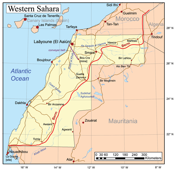 This is a general map of Western Sahara. The Polisario Front controls the area to the east of the berm, while Morocco controls the area to the west.